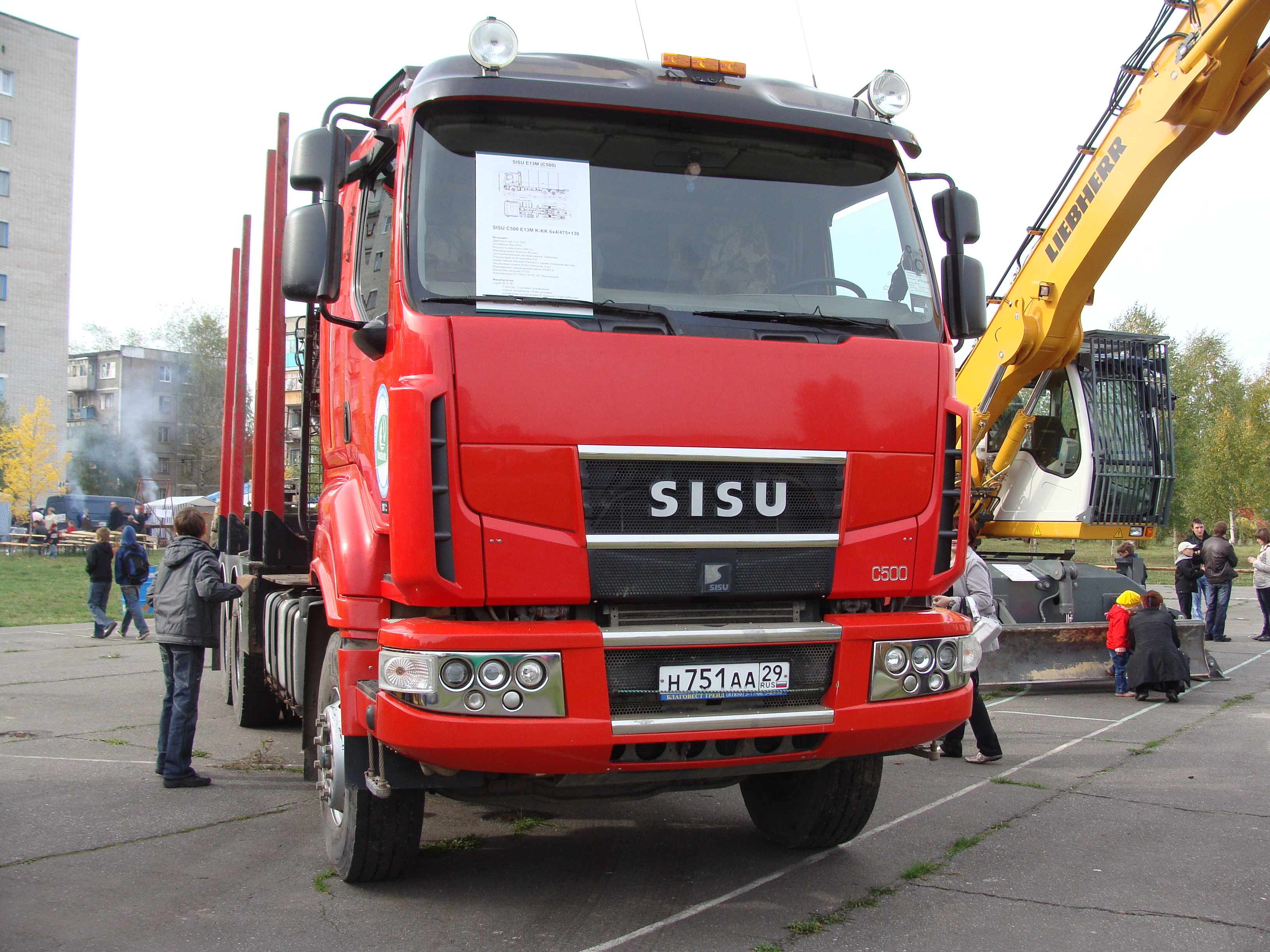 SISU C500 E13M K-KK 6x4/475+130